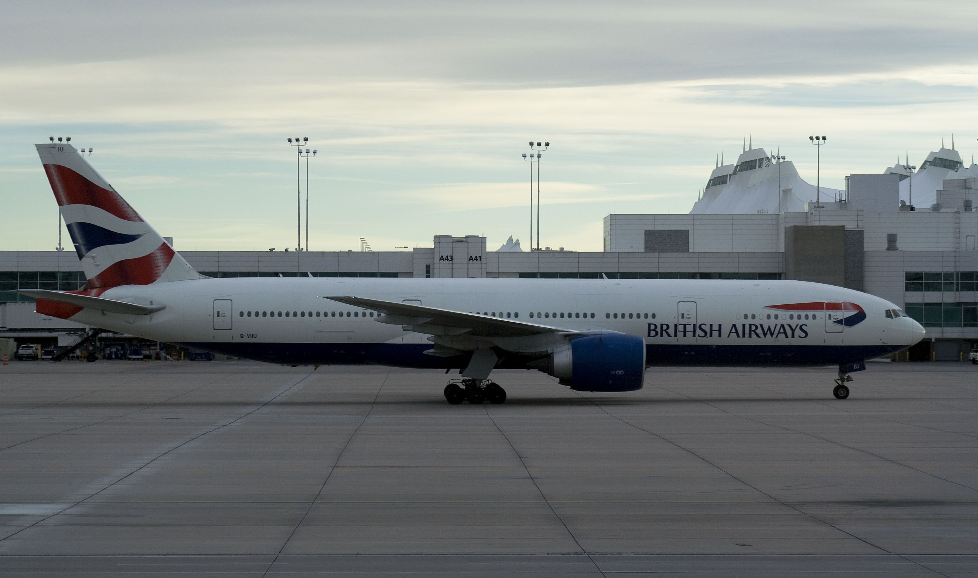 G-VIIU, Boeing 777-236ER, British Airways